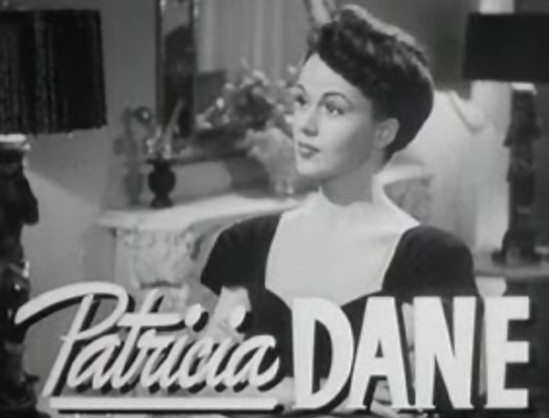 Cropped screenshot of Patricia Dane from the trailer for the film Grand Central Murder.